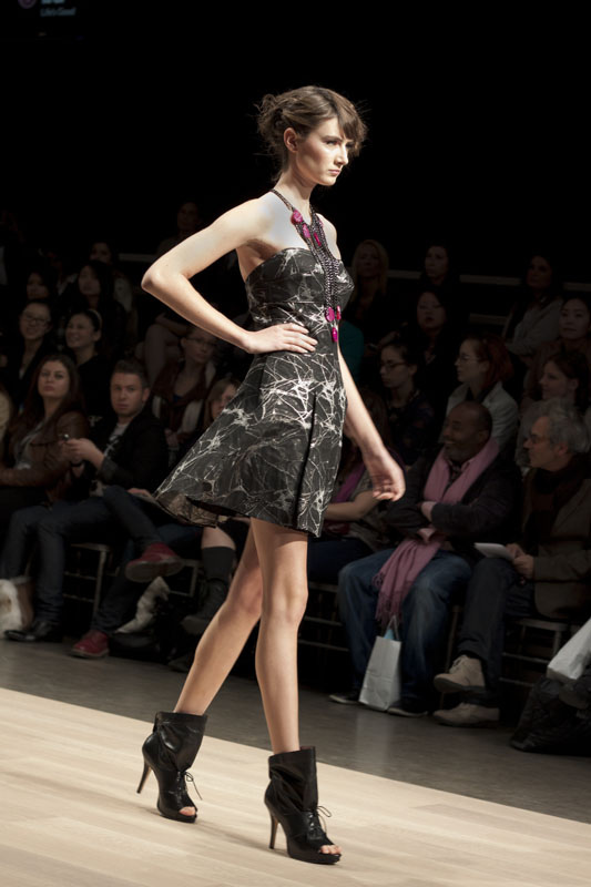 "LG Fashion Week Beauty by L’Oréal Paris", formerly Toronto Fashion Week, in 2010.